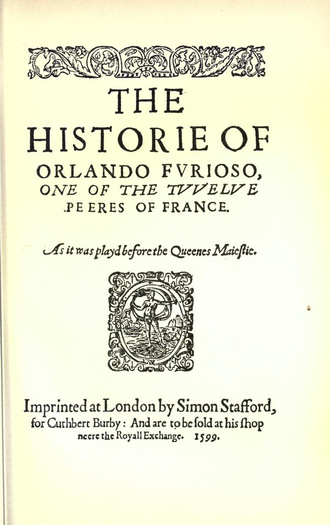 Title page of "Orlando Furioso" by Robert Greene, 1599